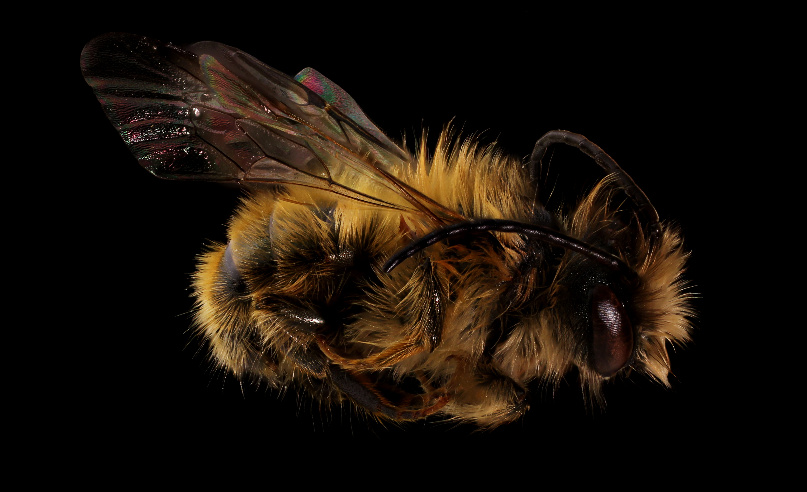 This bee is not believed to be native.